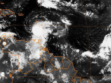 Tropical Storm Jerry (2001) over the Windward Islands with maximum sustained winds near 50 mph (80 km/h).